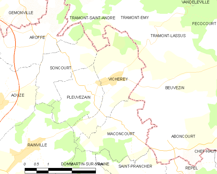 Map of French municipality Vicherey